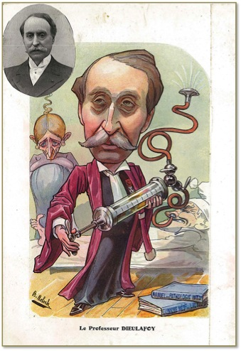 Caricature of members of the Academy of Medicine (Paris) designed by Hector Moloch (signing B. Moloch) and published in the journal "Chanteclair". Each cartoon is added a doctor's photography.